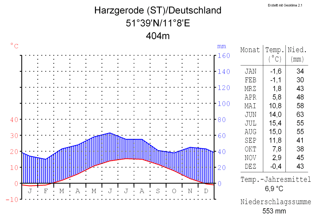 climate chart in the format by Walter and Lieth, metric, °Celsisus and millimeters, made with Geoklima 2.1